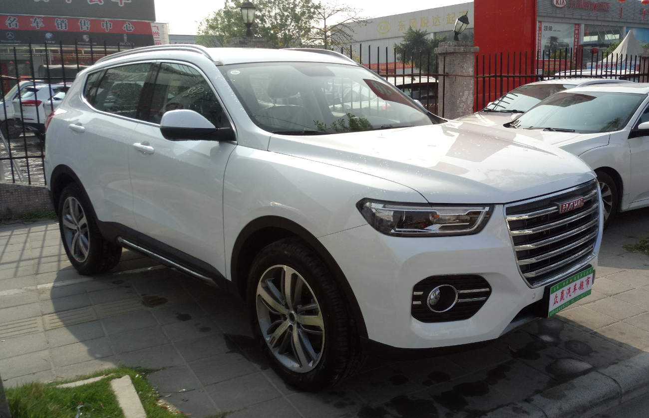 Haval H6 II Red photographed in Guangzhou, Guangdong province, China.